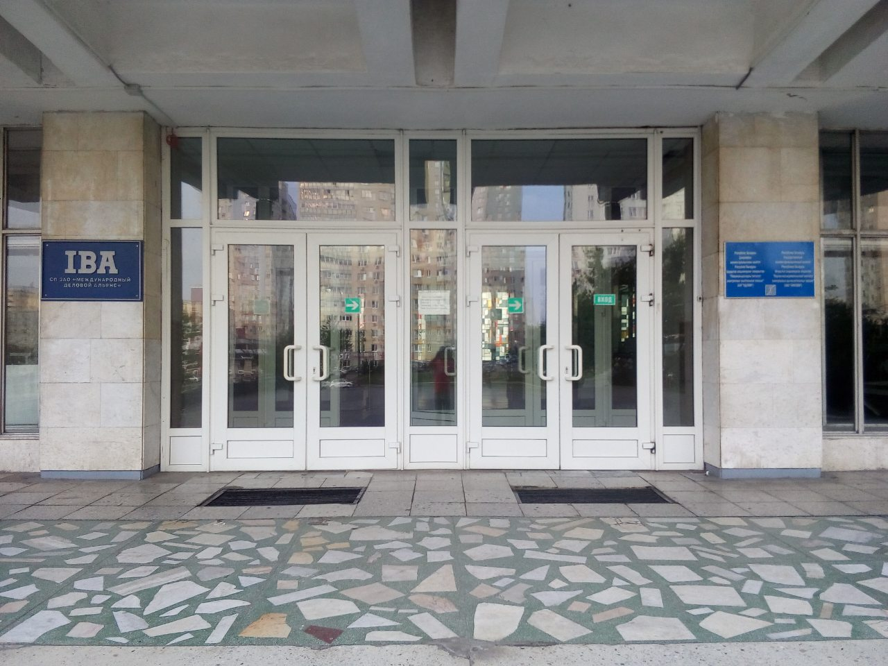 Entrance to the headquaters of Computer Research Institute (155 Bahdanoviča Street, Minsk, Belarus; 28th of July, 2019)